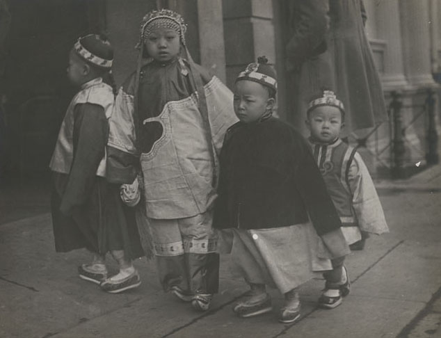 Photos of San Francisco's Chinatown including views of children, local vendors, the Chinese Salvation Army, and streets and alleys. Also includes a photograph of Gente with camera in Chinatown also included.